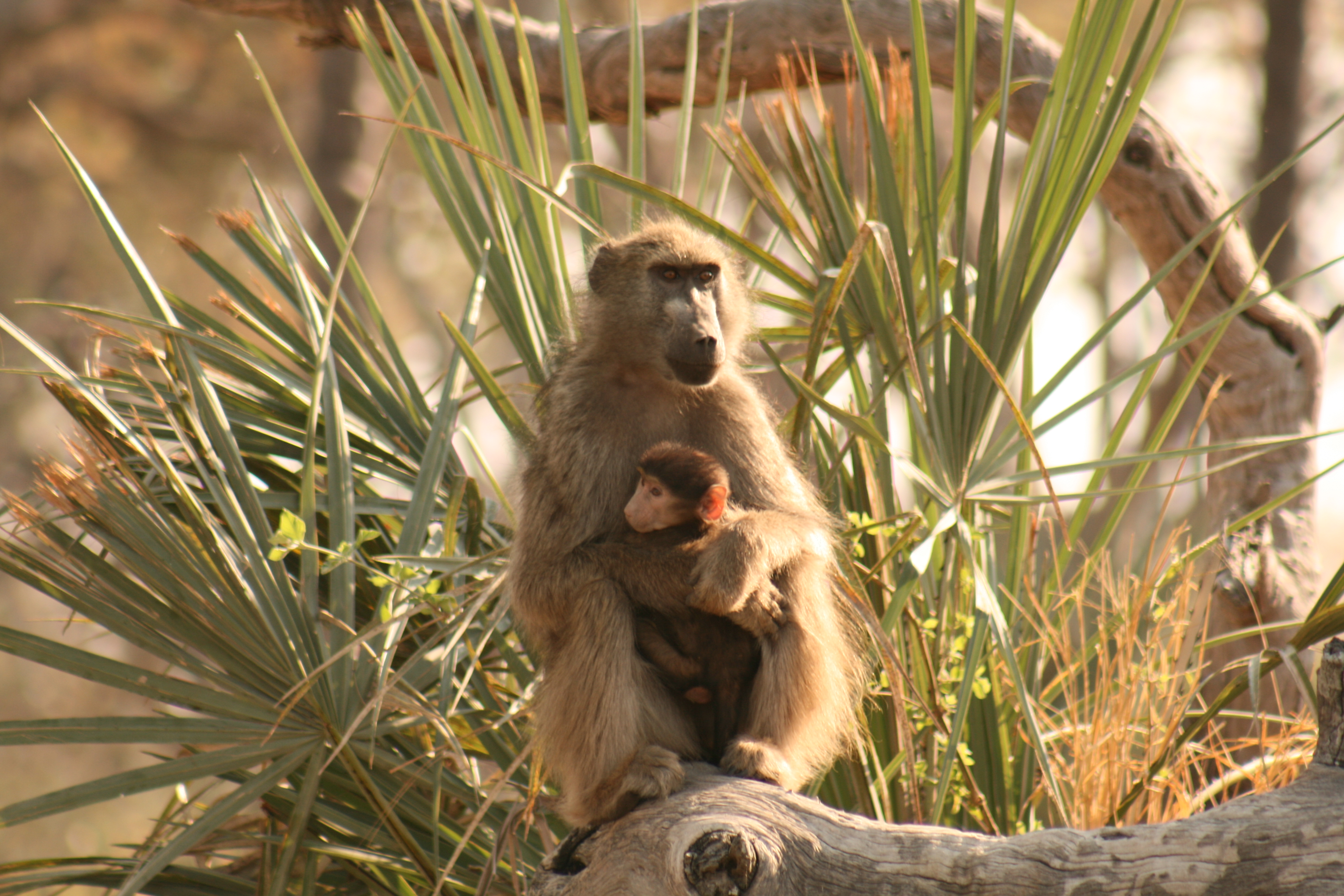 A Female Baboon and baby, Okavango Delta, Botswana.